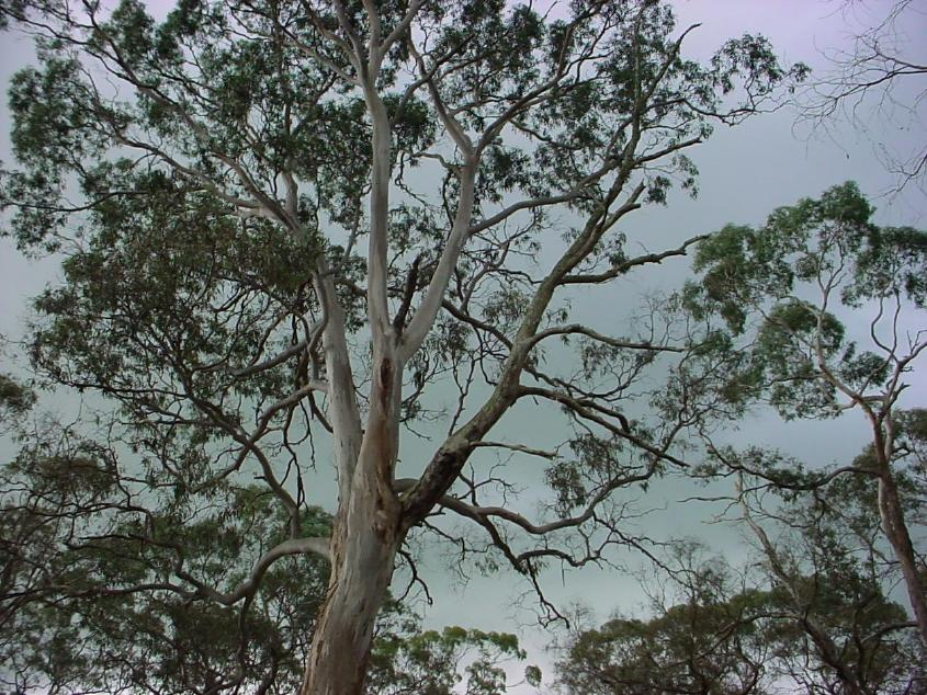 Rough-barked Manna Immagine:Eucalyptus.jpg